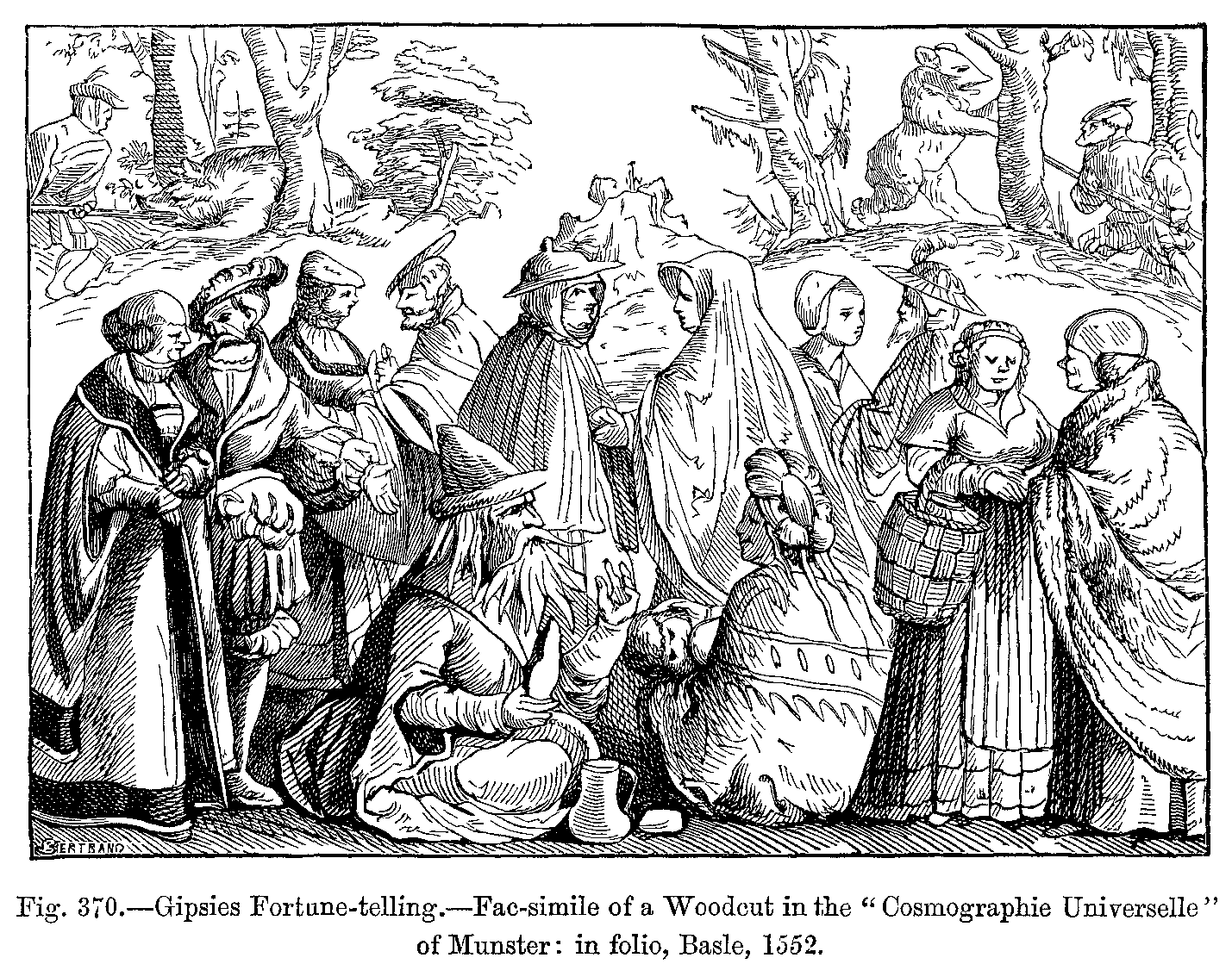 Gipsies Fortune-telling.--Fac-simile of a Woodcut in the "Cosmographie Universelle" of Munster: in folio, Basle, 1552.